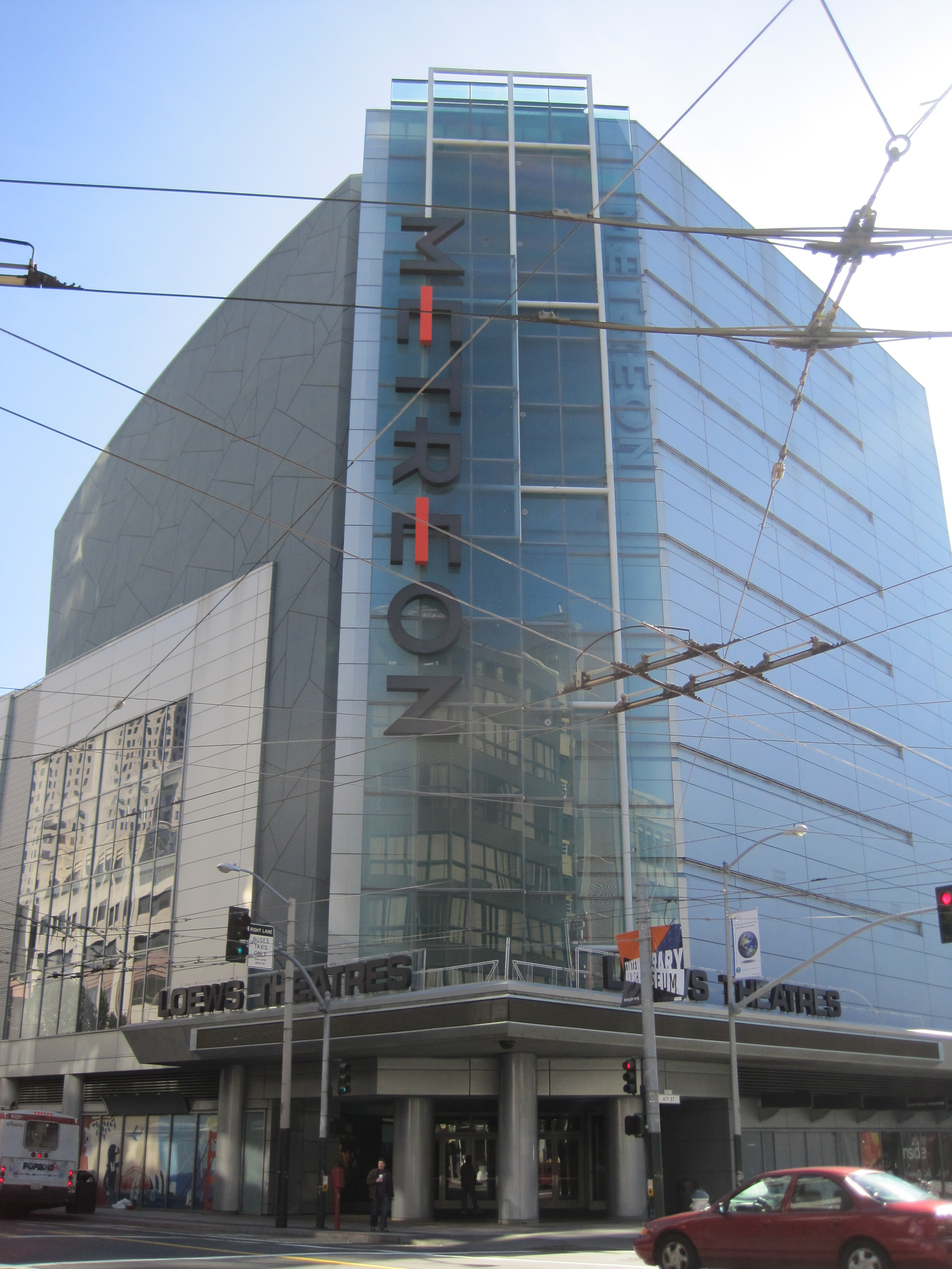 The Metreon in San Francisco, California.